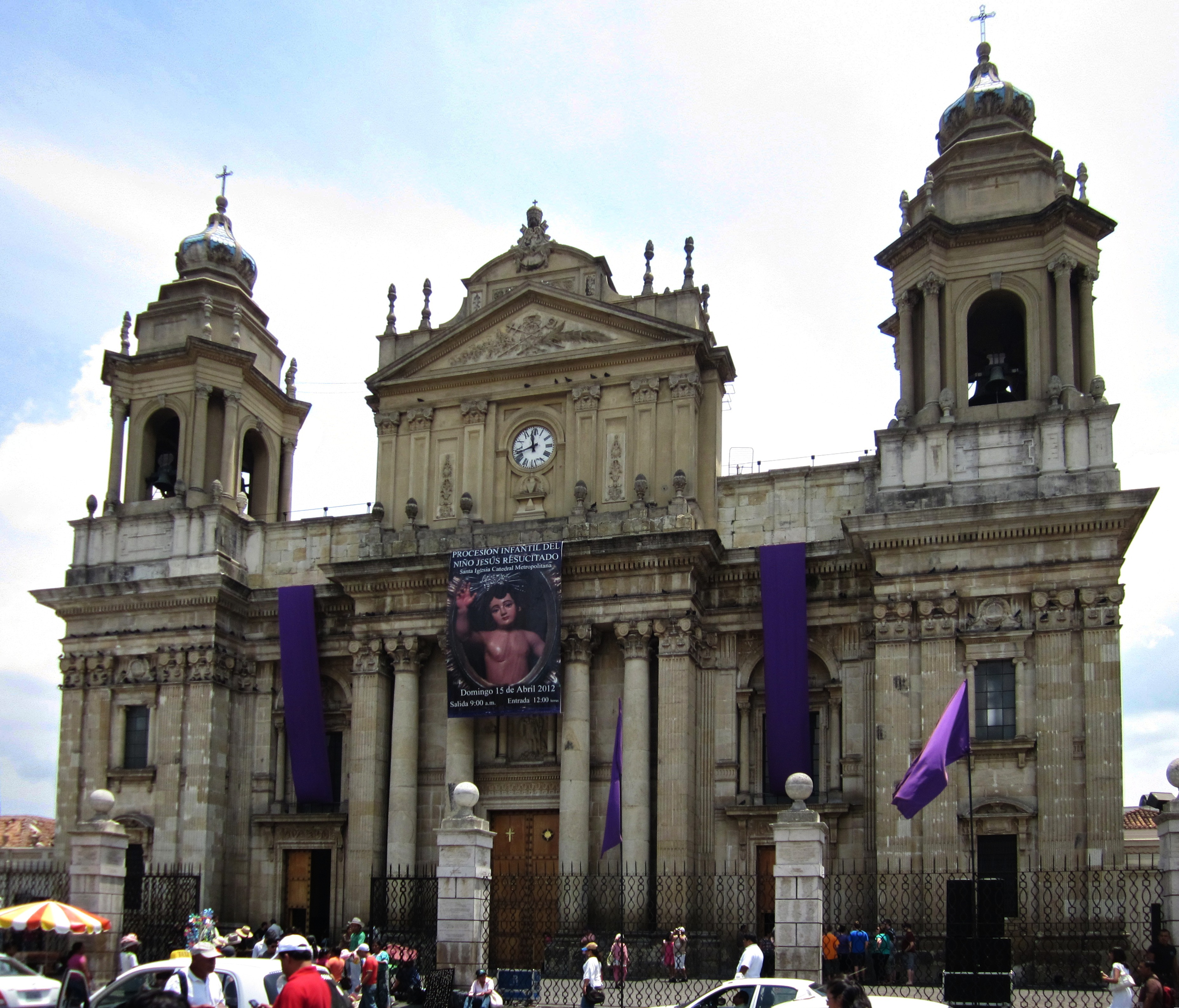 The Metropolitan Cathedral in Guatemala City, Guatemala.